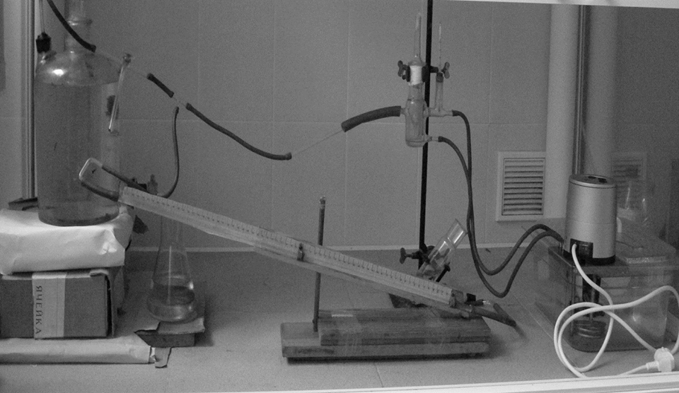 Rebinder device